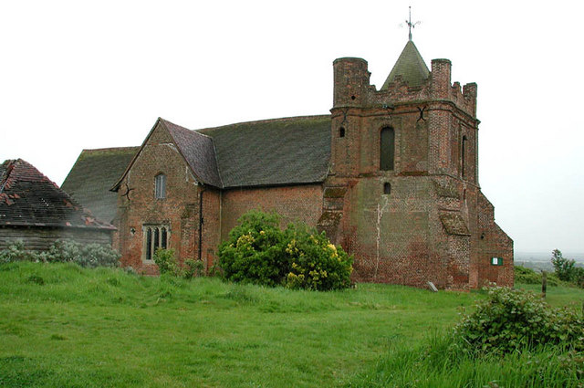 All Saints' parish church, East Horndon, Essex, seen from the north